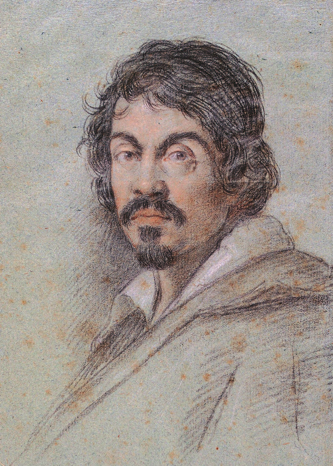 A portrait of the Italian painter Michelangelo Merisi da Caravaggio